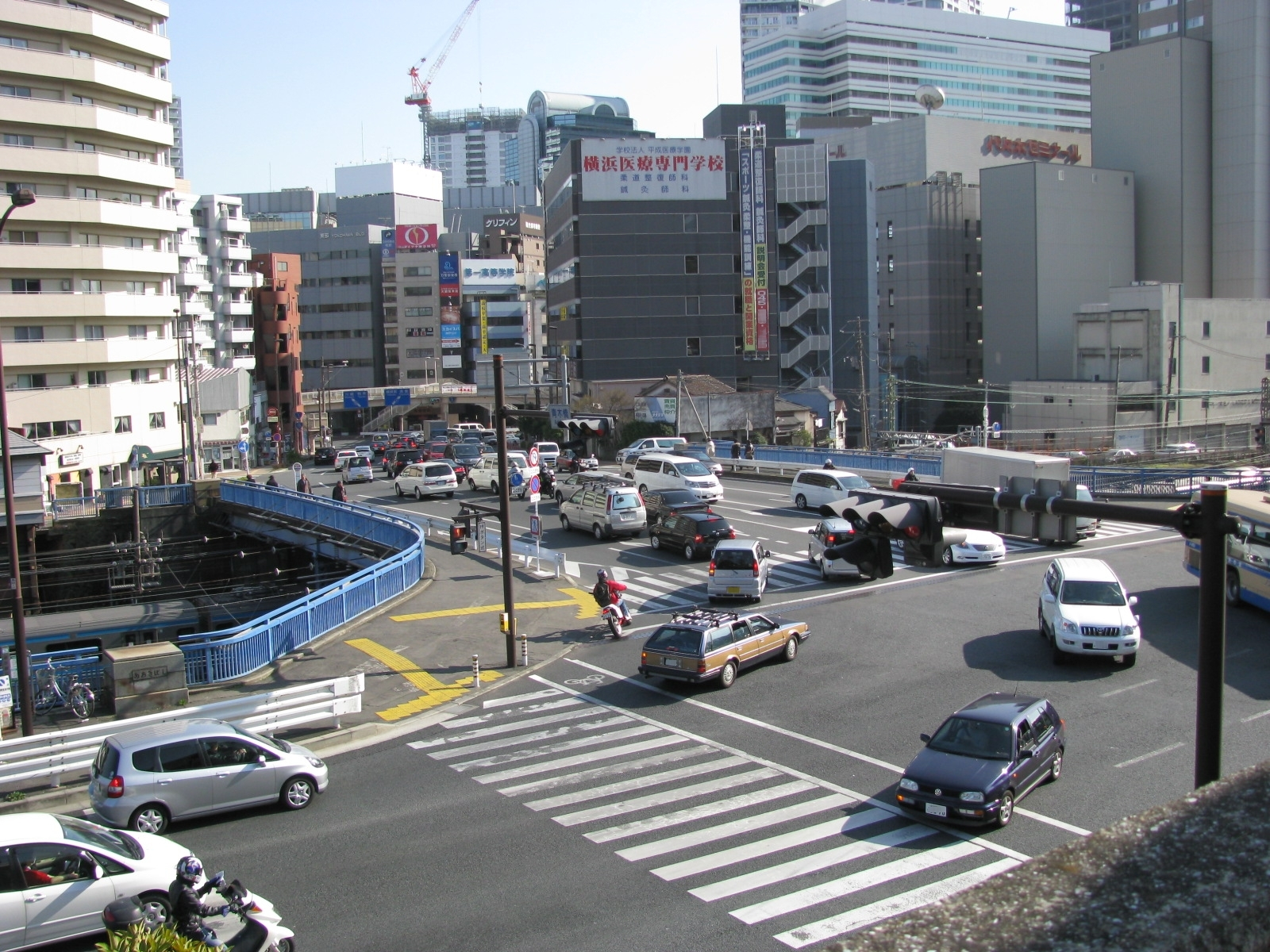 The Aoki-bashi is a bridge of National Route 1, on the Tokaido Main Line and the Keikyu Main Line, located in Kanagawa-ku, Yokohama, Kanagawa, Japan.